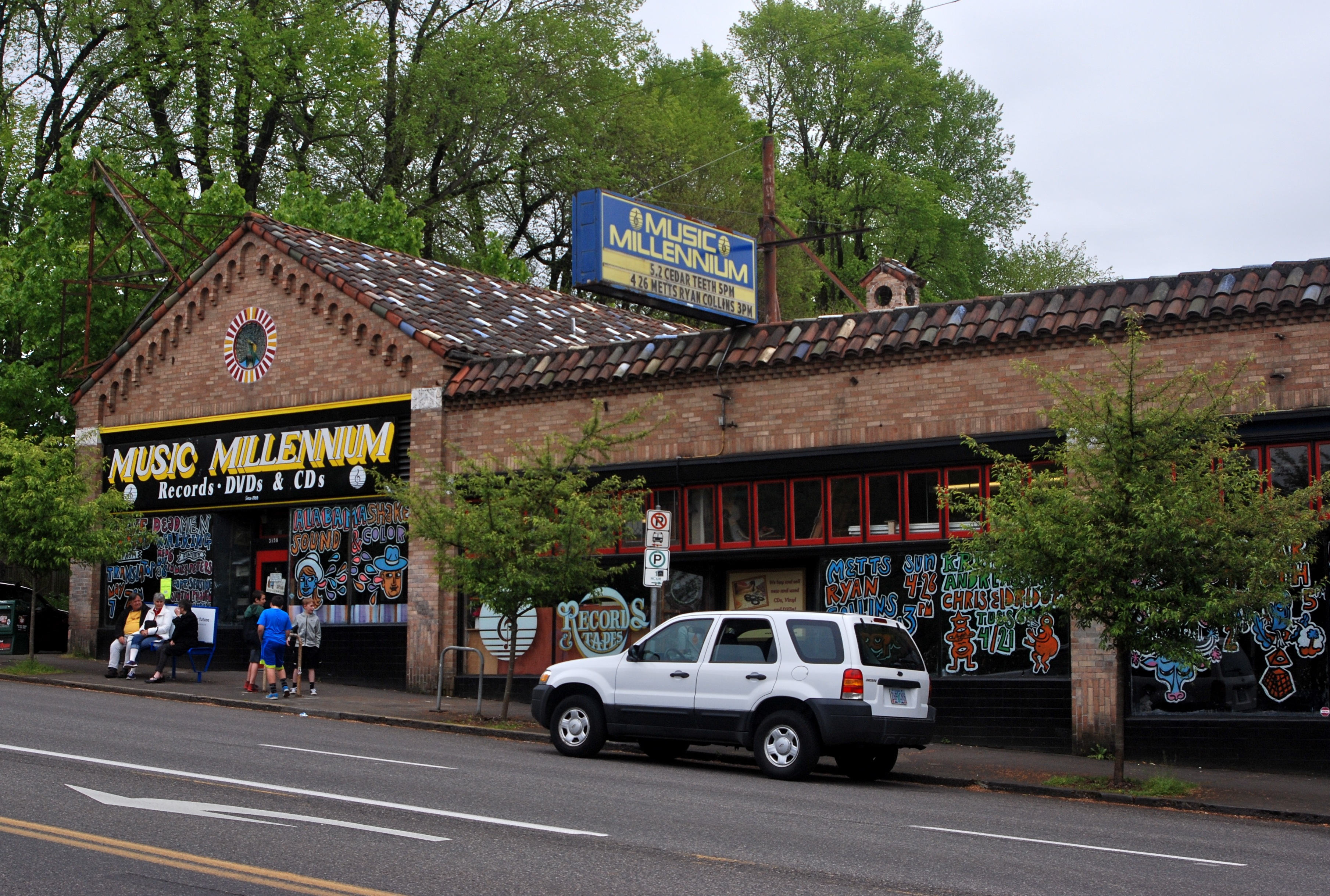 Music Millennium's original 1969 store, still in operation in 2015, at 32nd Avenue & East Burnside Street in Portland, Oregon